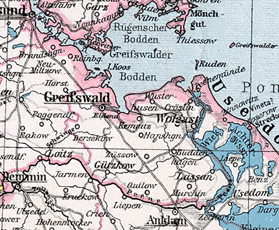 Detail from a map of Pomerania.